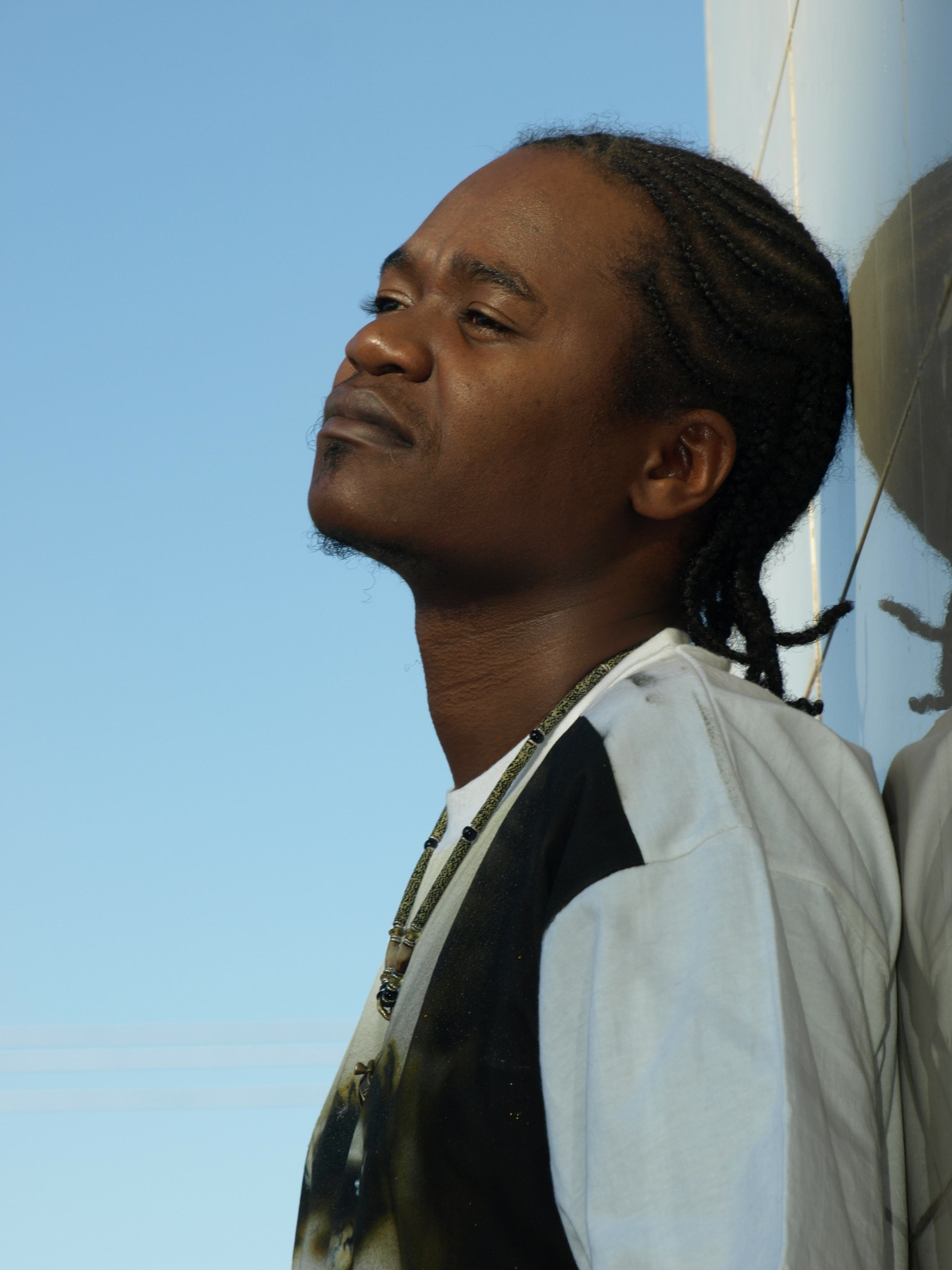 juacali (Paul Nunda) - kenyan popular musician